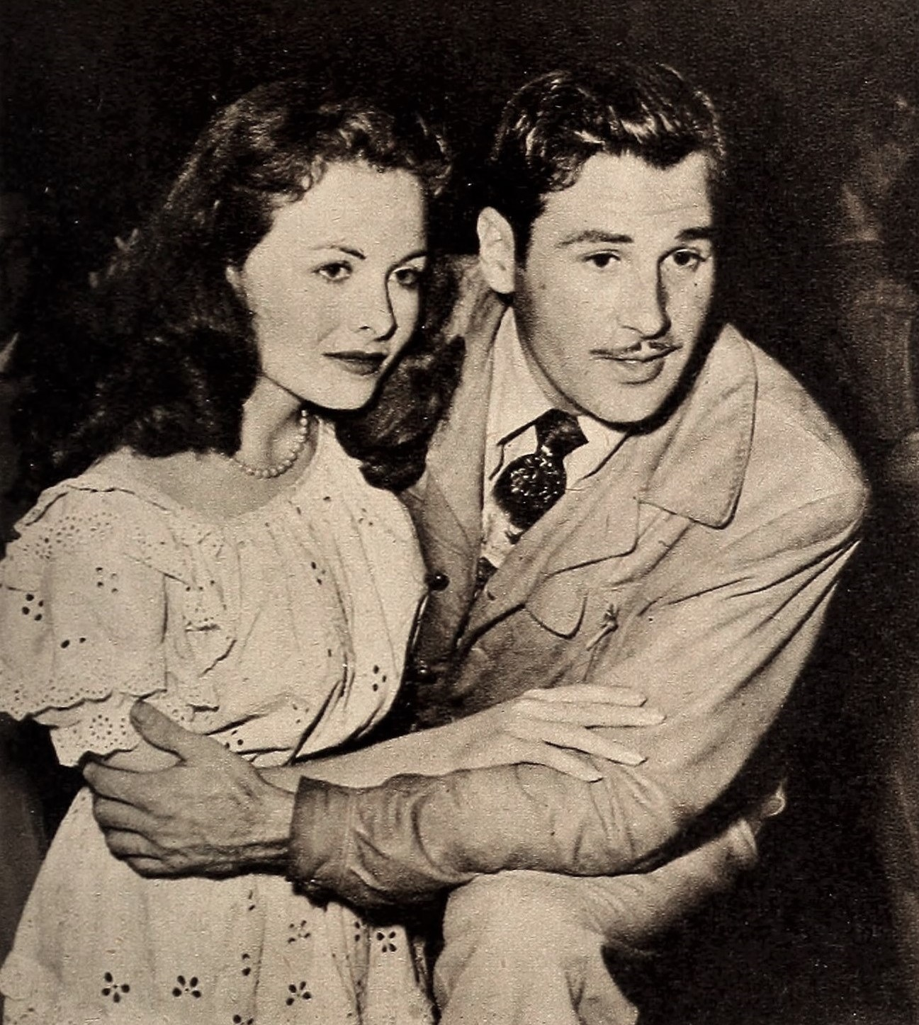 Jeanne Crain dancing with her husband Paul Brooks at the Mocambo, 1946